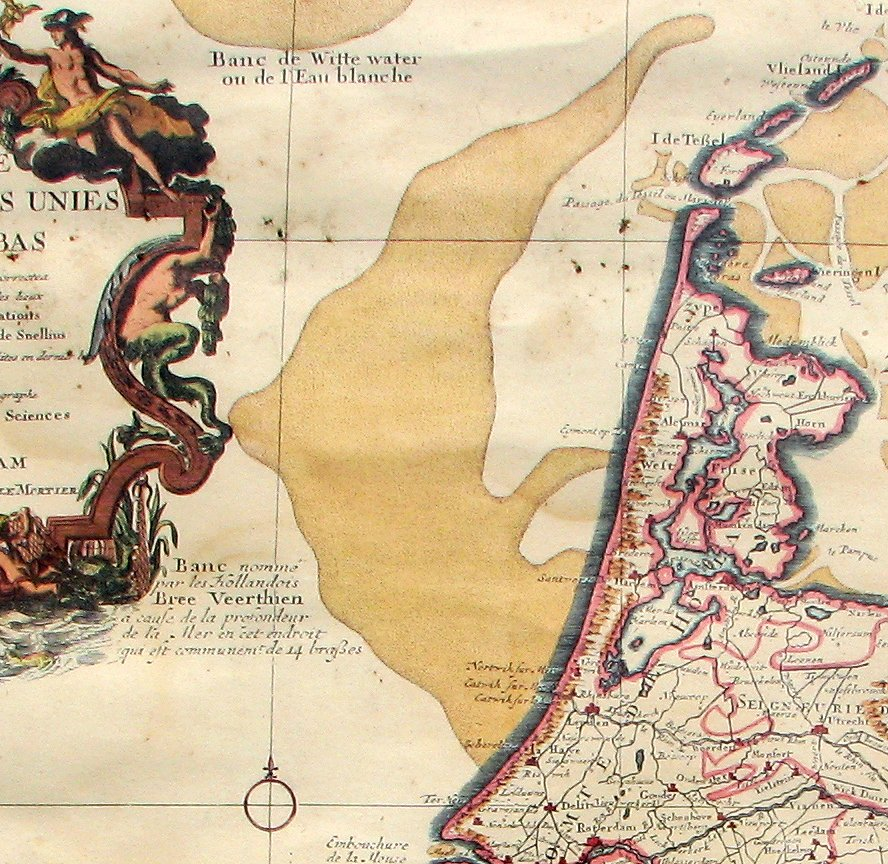 Map of The Netherlands (Broad Fourteens fragment), publication date circa 1743